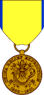 China Campaign Medal Transwiki approved by: User:Dmcdevit. This image was copied from en. This realistic image could be recreated using vector graphics as an SVG file. This has several advantages; see Commons:Media for cleanup for more information. If an SVG form of this image is available, please upload it and afterwards replace this template with vector version available|new image name .